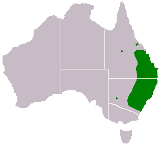 Acacia penninervis range map created with a blank map from the Commons, info from ILDIS LegumeWeb and the GIMP. More detail from ANBG [1]